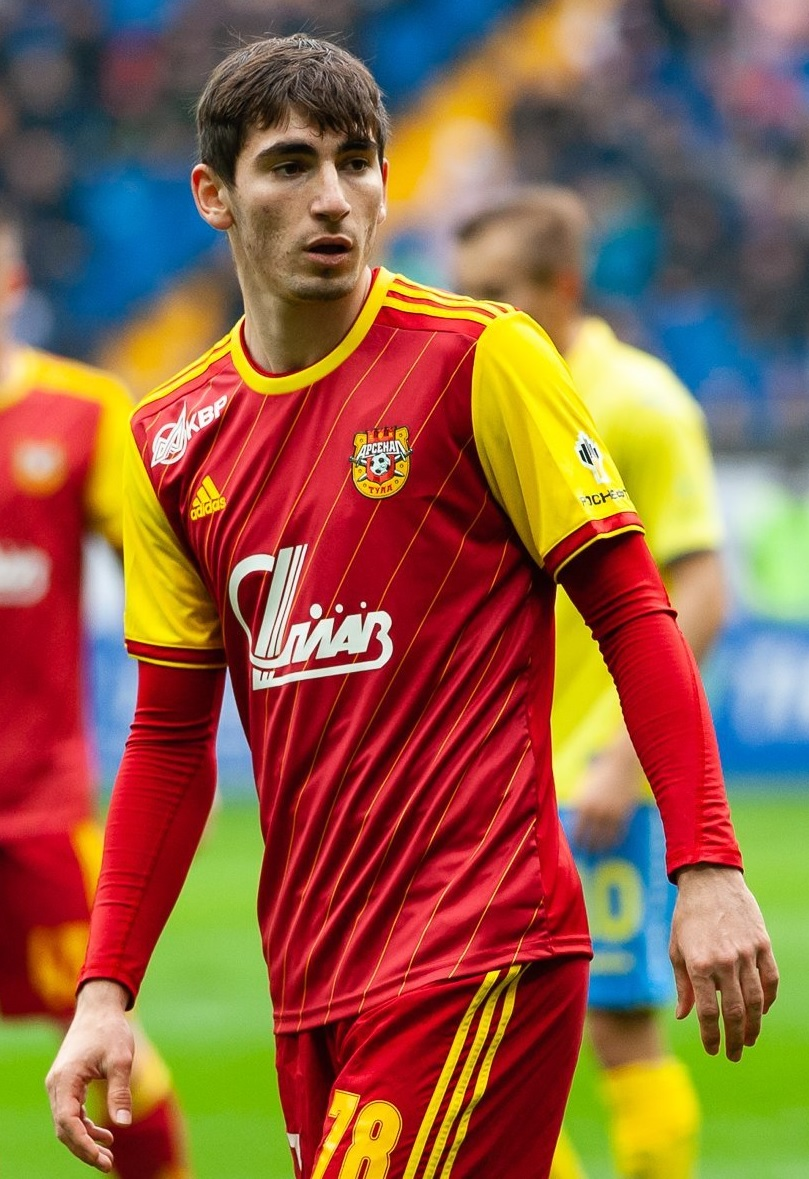 Zelimkhan Bakayev with FC Arsenal Tula in a game against FC Rostov.